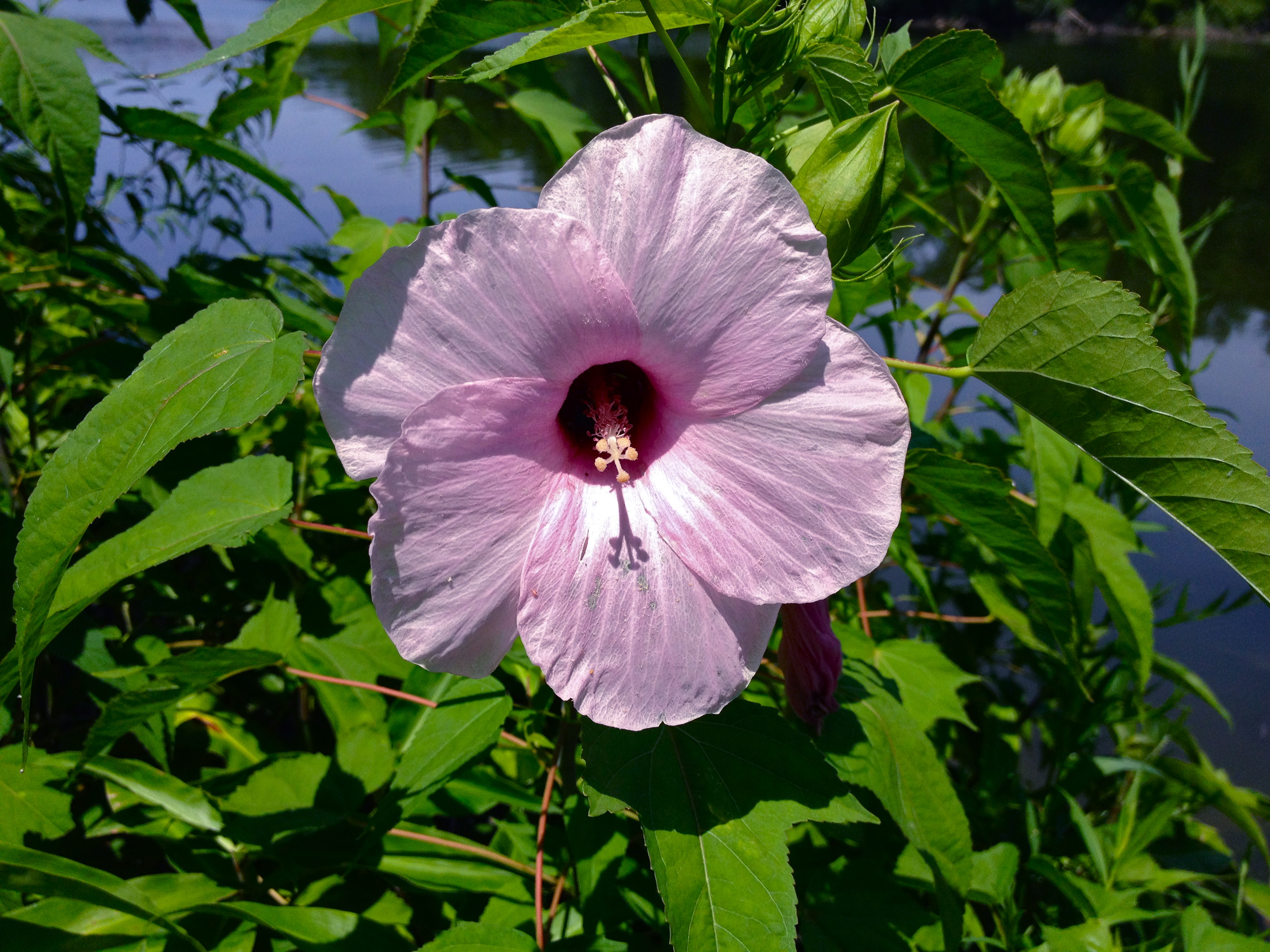 Photo of Hibiscus laevis in flower. This is a native plant growing wild along the Potomac Heritage Trail, in Arlington county, Virginia, USA. This species is a member of the Malvaceae family.